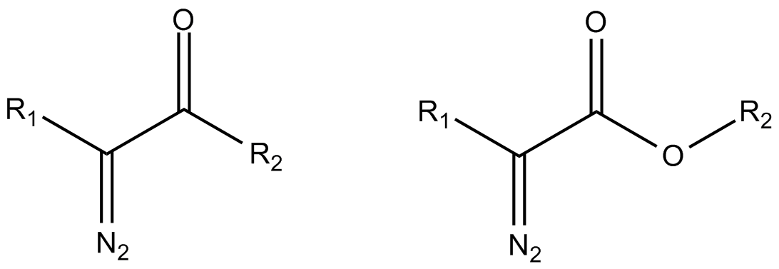 Examples of diazocarbonyl compounds. Diazoketone on the left and Diazoester on the right. Drawn with ChemBioDraw Ultra 12.0.2.